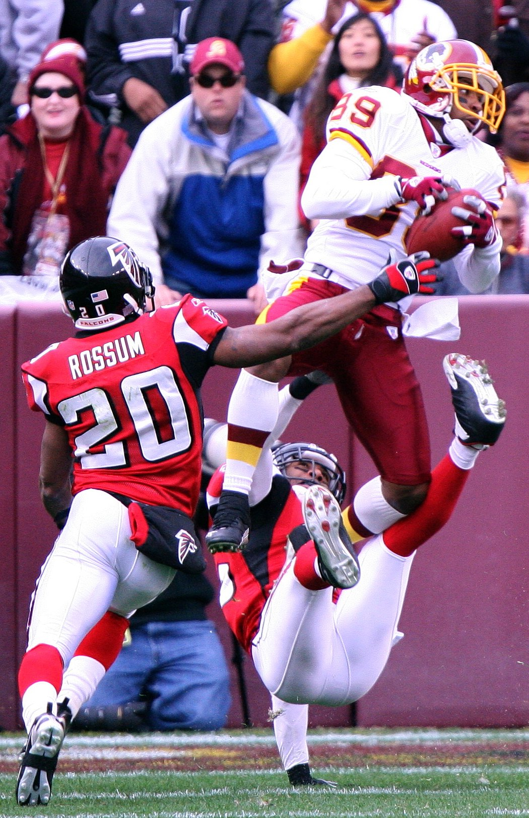 Santana Moss makes a mid-air catch against the Atlanta Falcons December 3, 2006